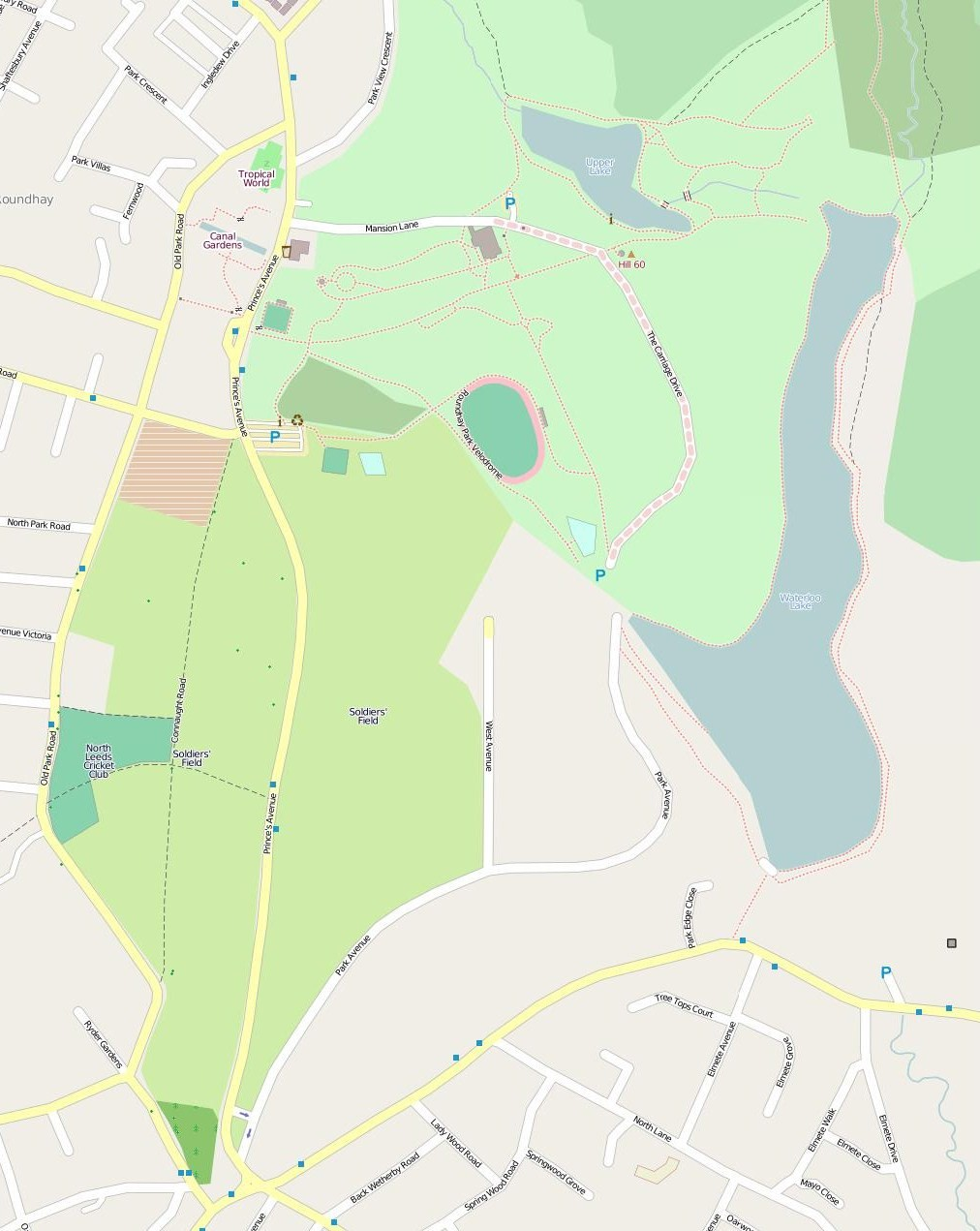 A map of Roundhay Park taken from Open Street Map on the 1st of December 2012.